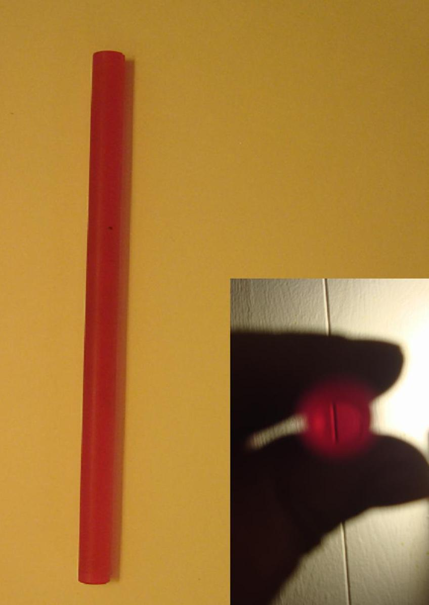 This ruby laser rod measures 10 mm by 150 mm. The inset shows the view through the highly polished and anti-reflection coated ends is crystal clear.